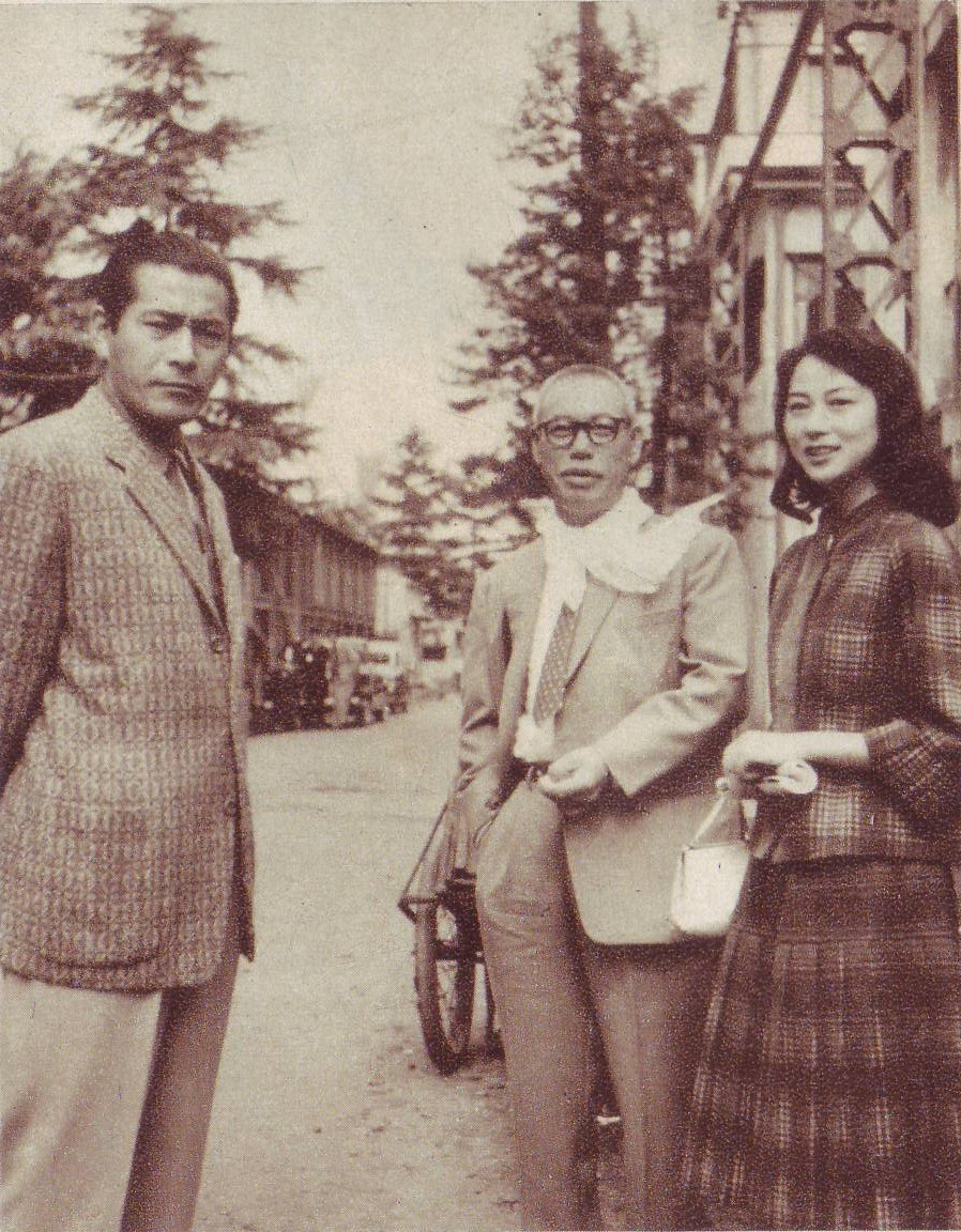 Toshiro Mifune (left), Takashi Shimura (center), Misa Uehara (right). taken in 1957.